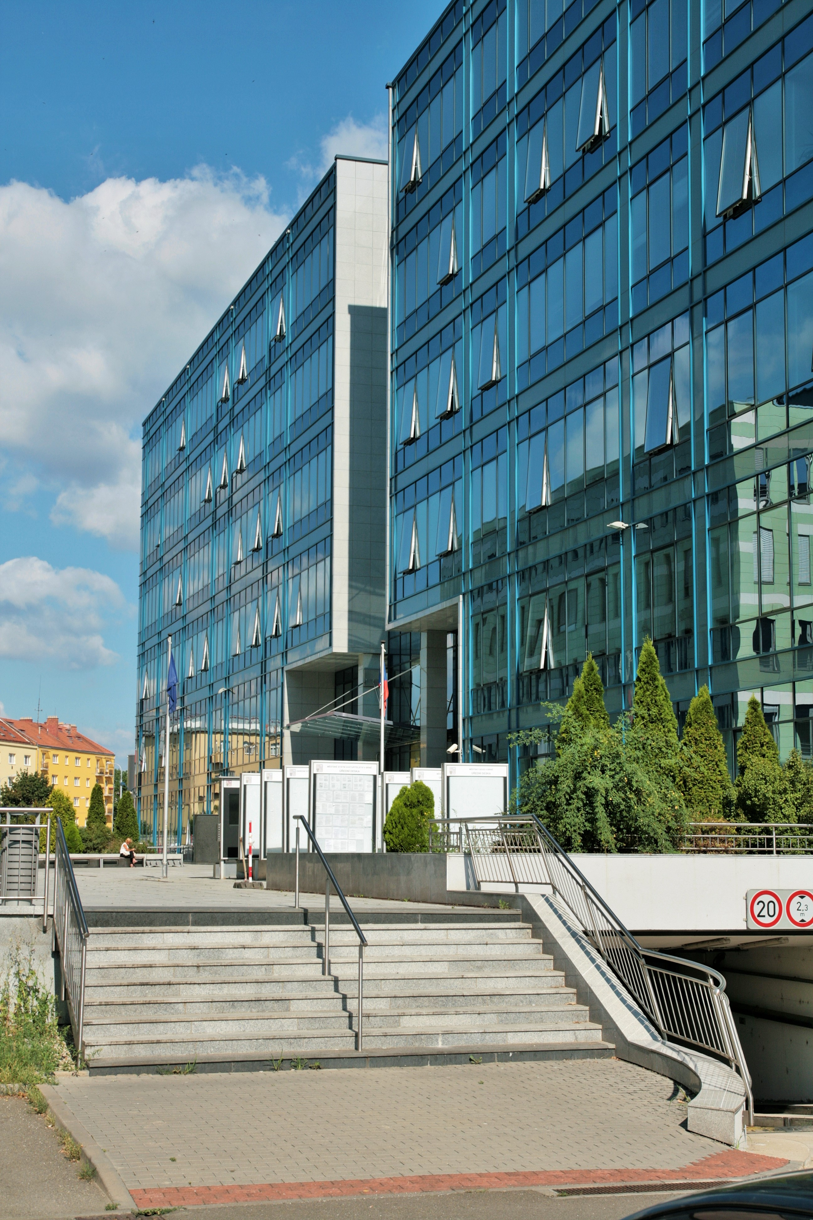 Judicial complex in Štýřice, Brno, Czech Republic.